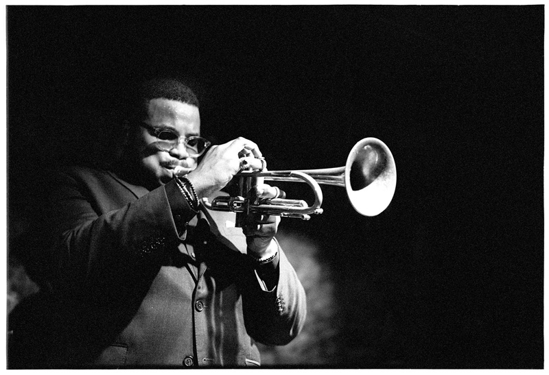 Jeremy Pelt, Jazzcellar, Frankfurt am Main, Germany, 2017